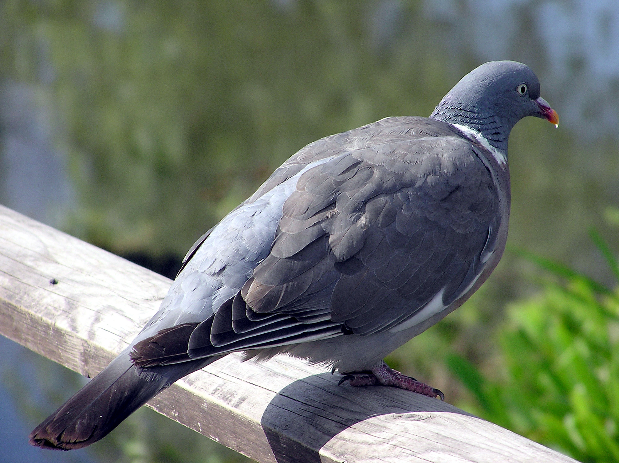 Wood Pigeon Columba palumbus at Slimbridge Wildfowl and Wetlands Centre, Gloucestershire, England. Photographed by Adrian Pingstone in August 2004 and placed in the public domain.